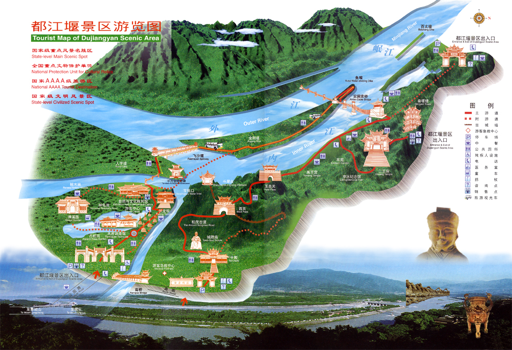 dujiangyan tour map, travel guide